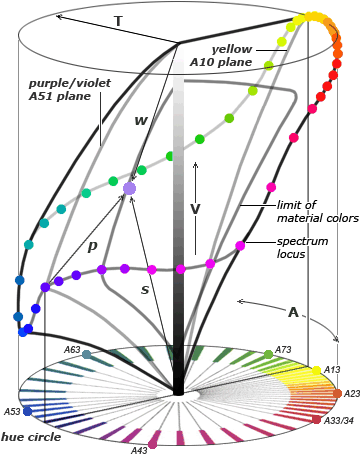 Representation of the geometry and color limits of the Coloroid color space